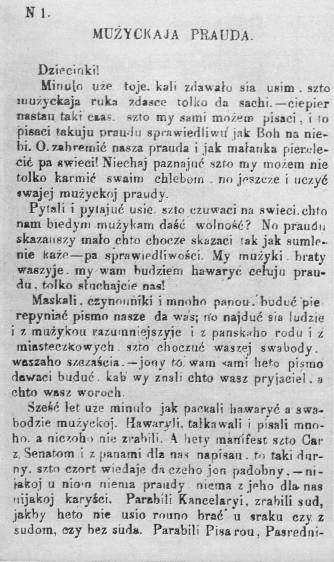 Paper "Muzyckaja prauda"